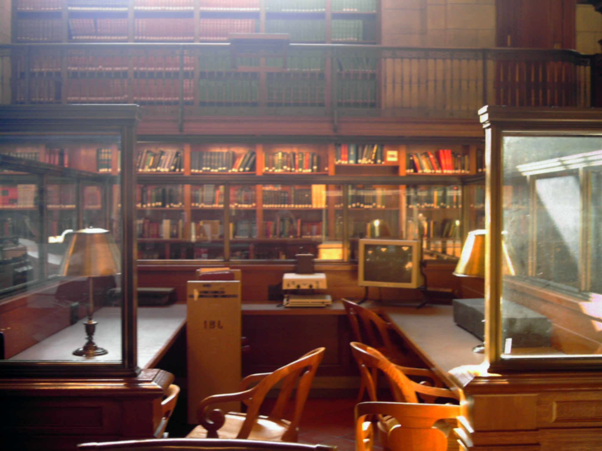 Third floor of the Stephen Schwarzman Building; picture shows objects behind an empty Librarian's desk.